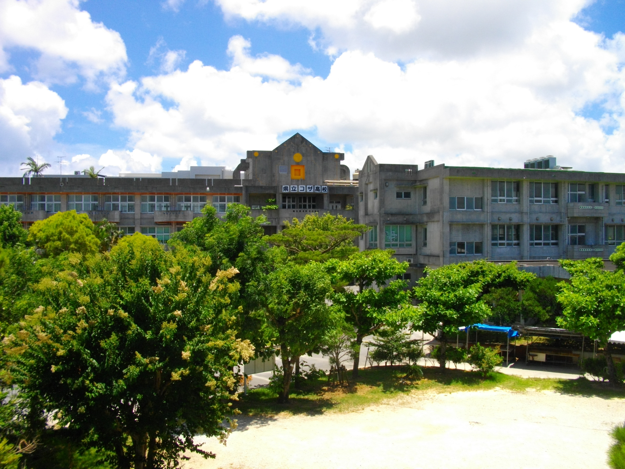 Koza High School